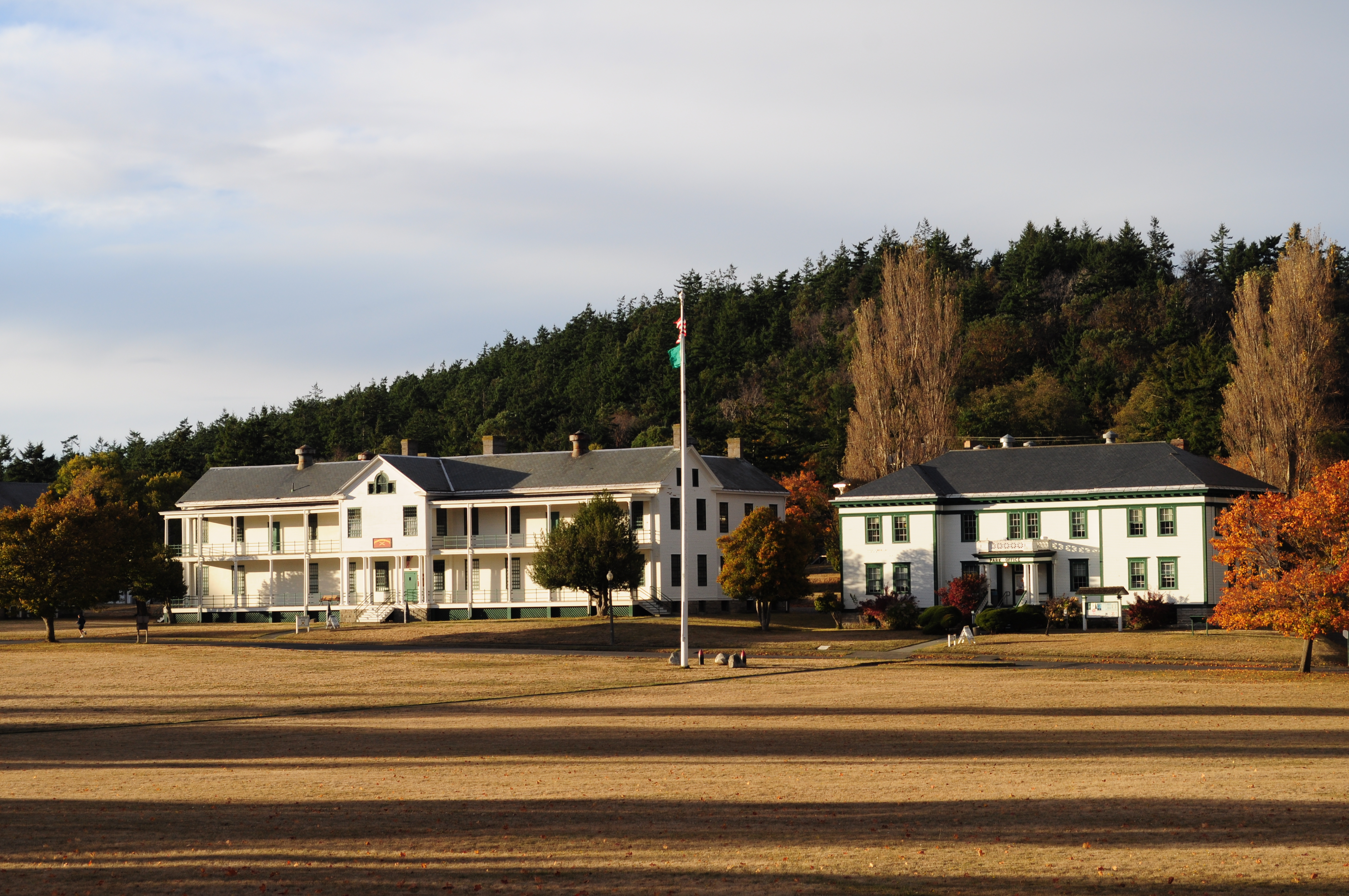 Officers Row & parade ground, Fort Worden, Port Townsend, Washington.